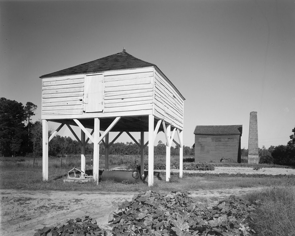 View of the the winnowing house, with the rice threshing mill in the background, Mansfield Plantation, U. S. Route 701 vicinity, Georgetown vicinity, Georgetown County, South Carolina. Historic American Buildings Survey, The Library of Congress, Washington, D. C.